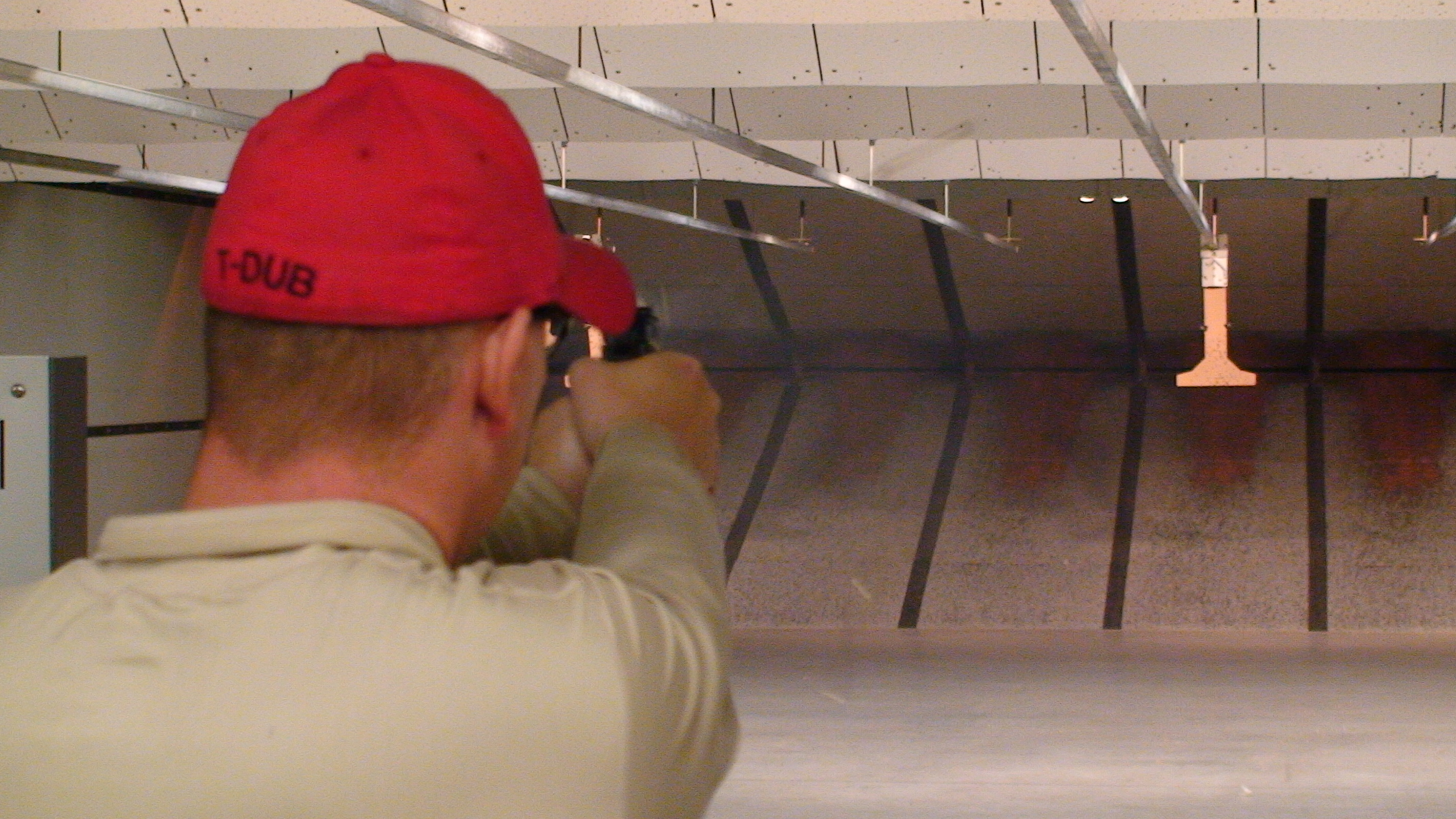 Small firearm training at an indoor firing range